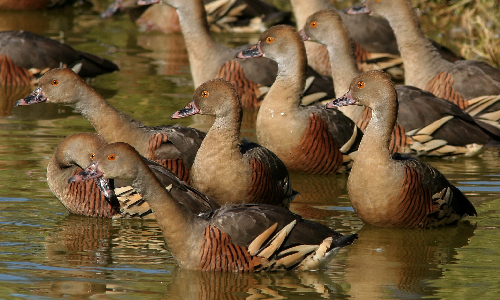 Plumed Whistling-Ducks, Dendrocygna eytoni; wild birds